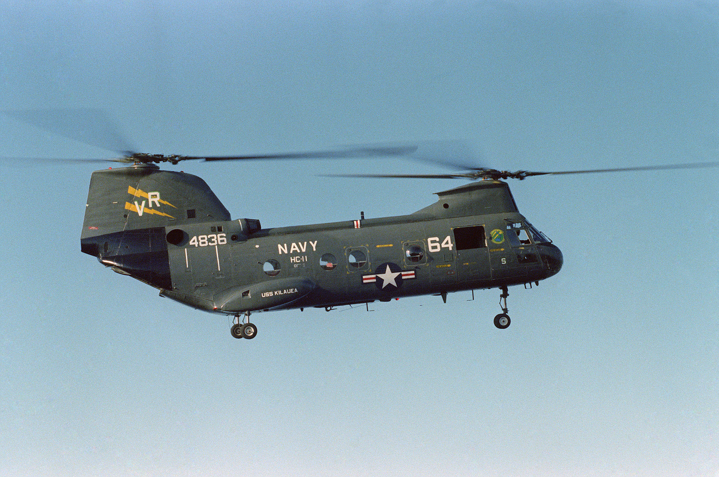 A U.S. Navy Boeing Vertol CH-46D Sea Knight (BuNo 154836) of Helicopter Combat Support Squadron HC-11 "Gunbearers" from the ammunition ship USS Kilauea (AE-26) in flight.